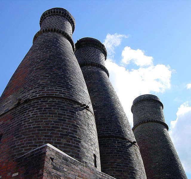 Bottle kilns at the old pottery. The one on the right was built first, by a company from the Staffordshire Potteries. The other two were built by a local company a little later and don't seem to have been quite so well made. They stand in what is now the tea garden at House of Marbles glass works.